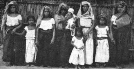 Zapotec women and children Mexican Indian Mongoloid